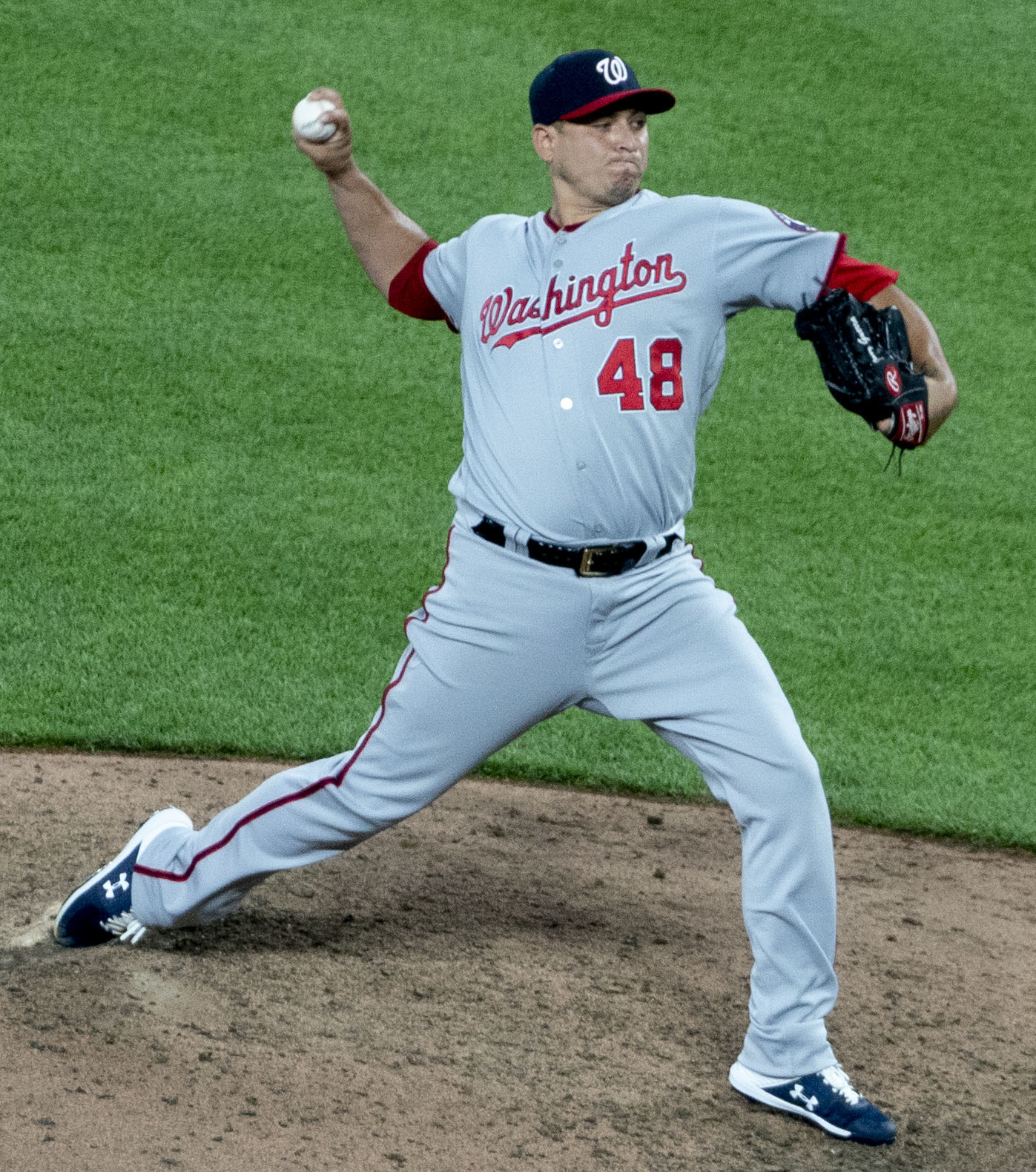 Javy Guerra delivers a pitch for the Washington Nationals during a 2019 game at Camden Yards in Baltimore